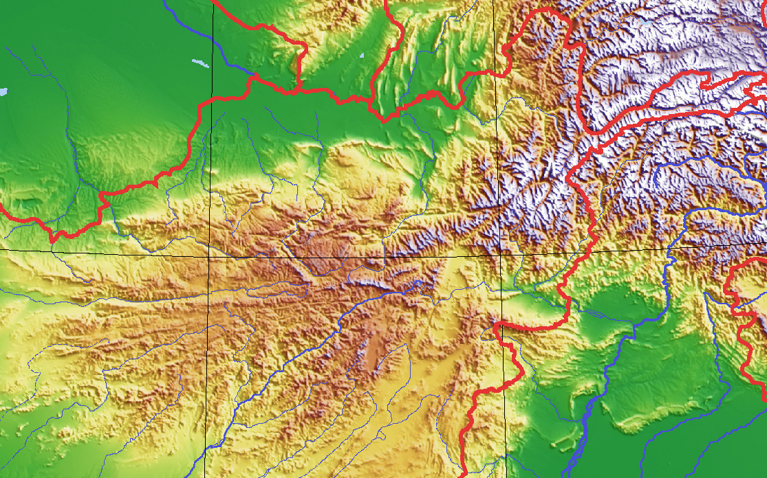 Topography of Hindu Kush. Fragment of the image Image:Afghanistan Topography.png